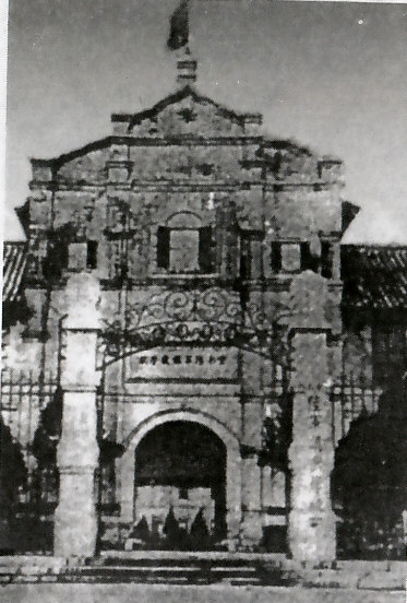 Yunnan Military Academy (1909 - 1927)